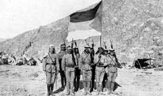 Soldiers in the Arab Army during the Arab Revolt of 1916-1918, carrying the Arab Flag of the Arab Revolt and pictured in the Arabian Desert.